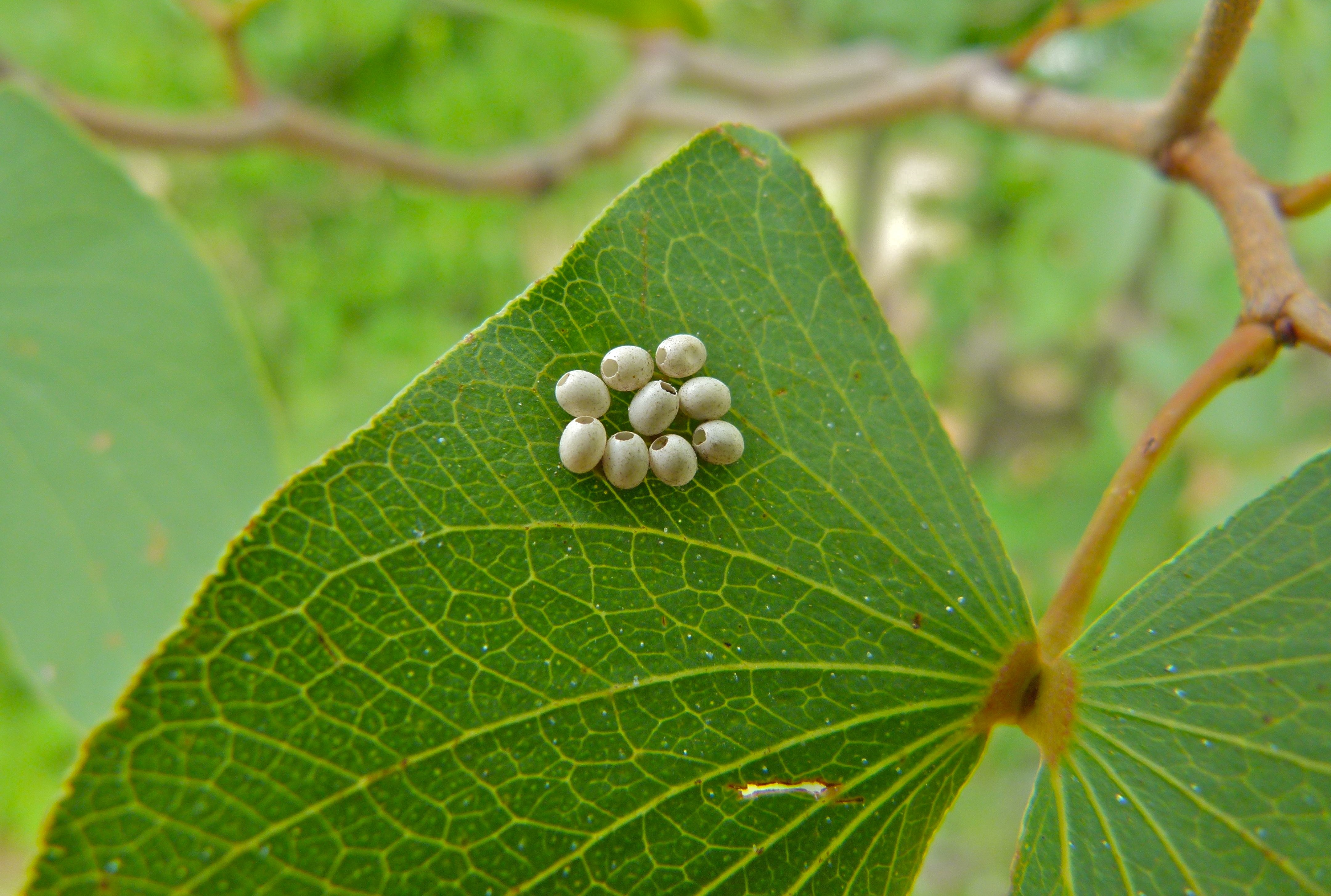 S47 North of Letaba, Kruger NP, SOUTH AFRICA